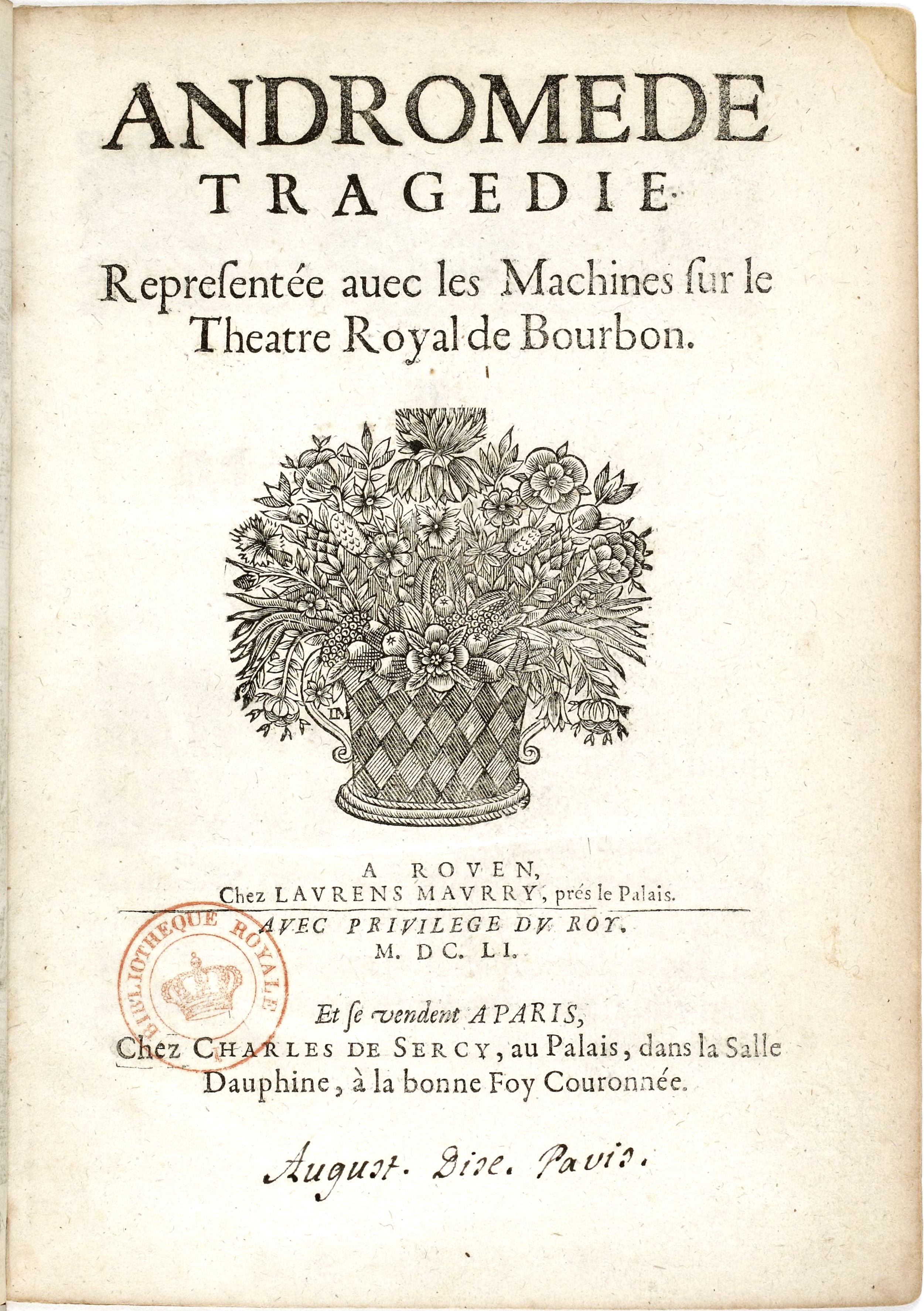 Title page for the second edition (Rouen, 1651) of Pierre Corneille's machine-play Andromède as first performed on 1 February 1650 by the Troupe Royale at the Petit-Bourbon in Paris